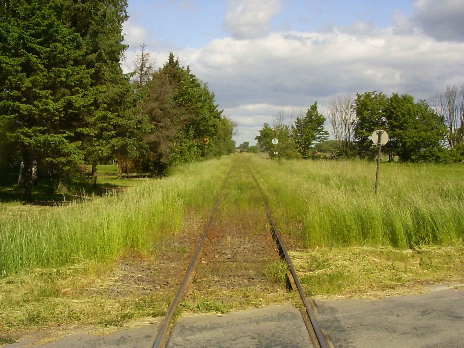 Åhusbanan in Rinkaby